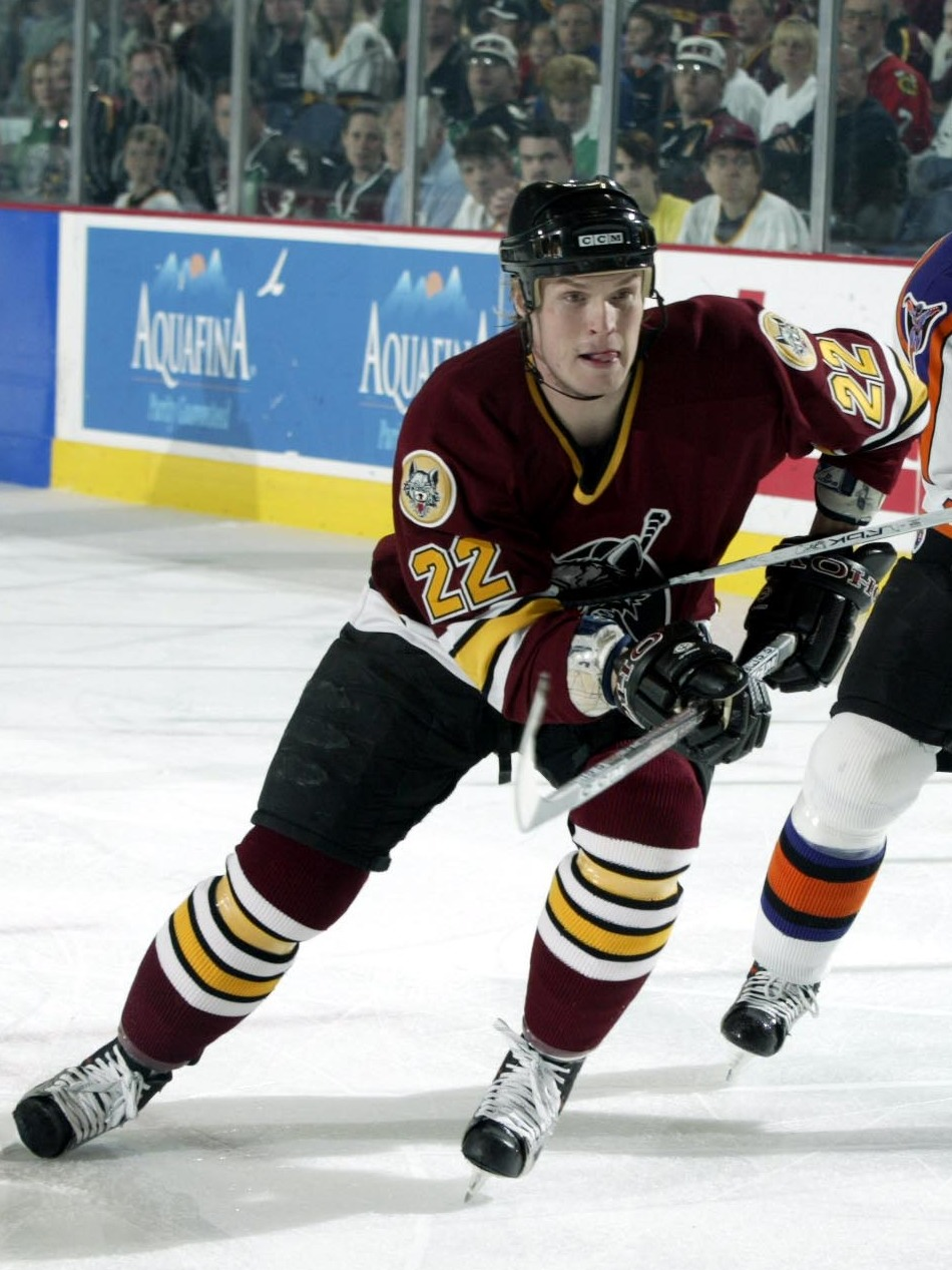 Photo: Ross Detman